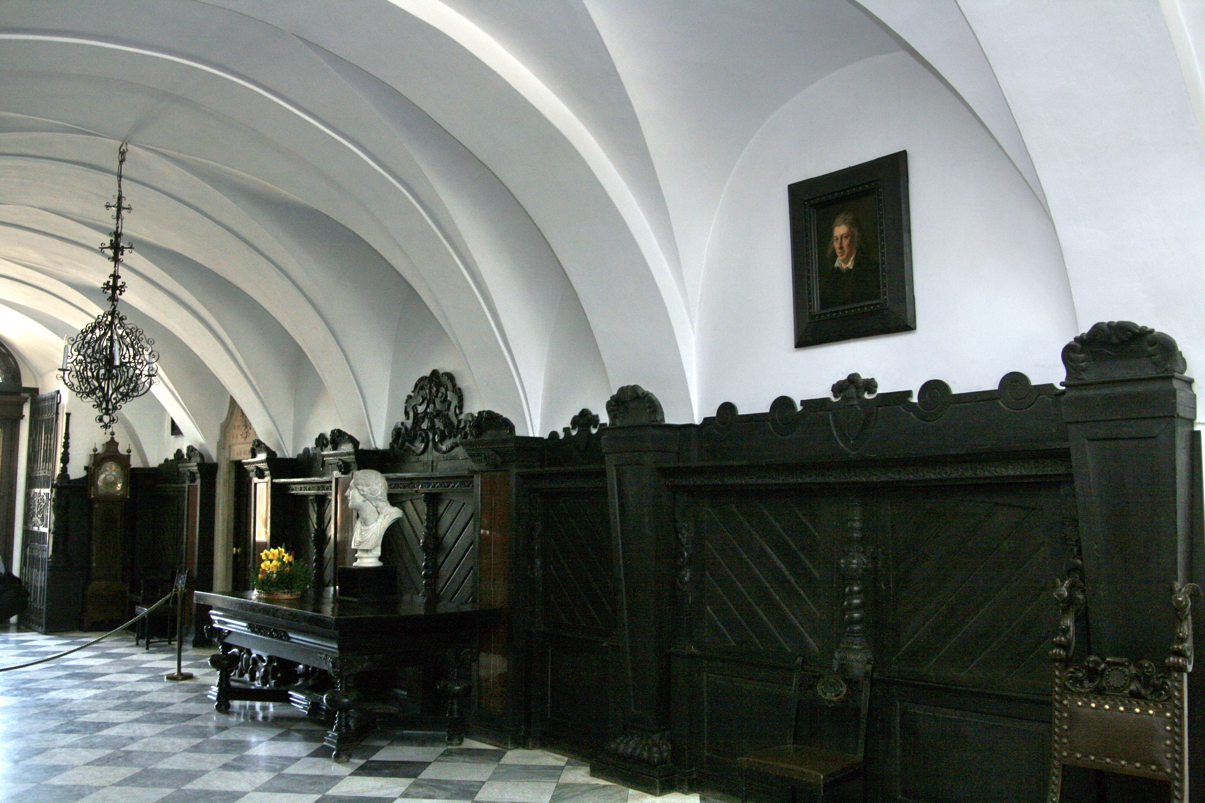 Nieborów Palace - Vestibule